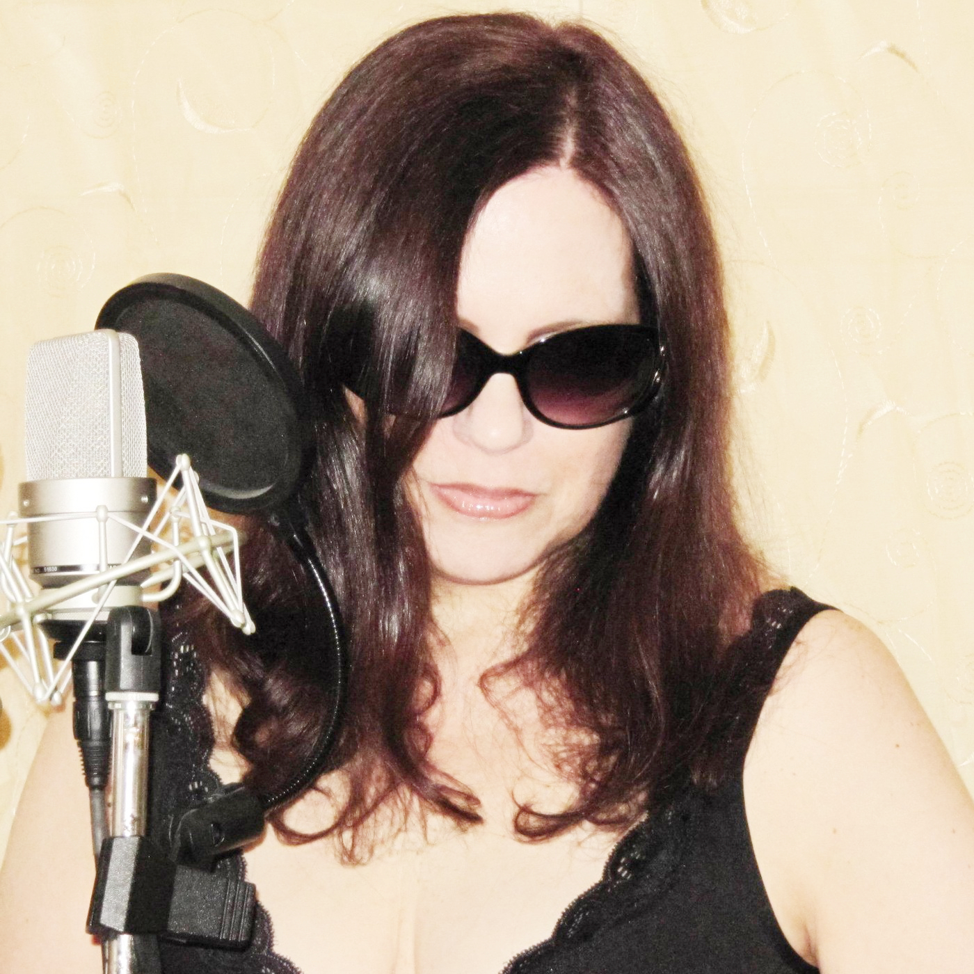 Jazz artist Kathy Sanborn